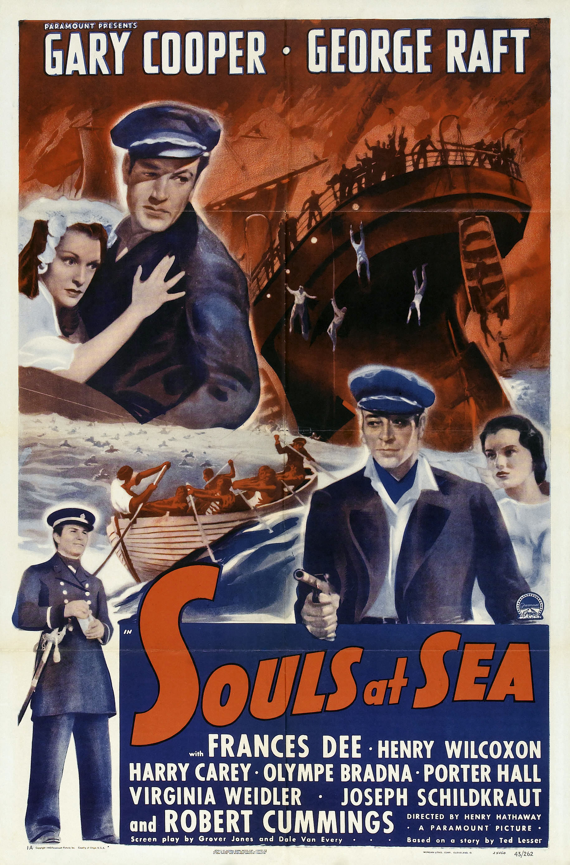 Poster - Souls at Sea - directed by Henry Hathaway (1937), with Gary Cooper, George Raft and Frances Dee